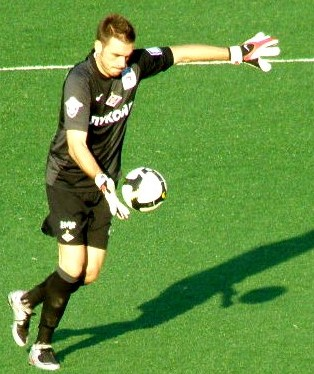 Stipe Pletikosa in action for FC Spartak Moscow